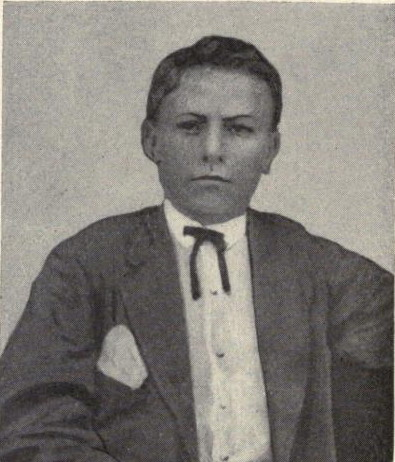 From: C. Siringo. A cowboy detective: a true story of twenty-two years with a world famous detective agency (1912).